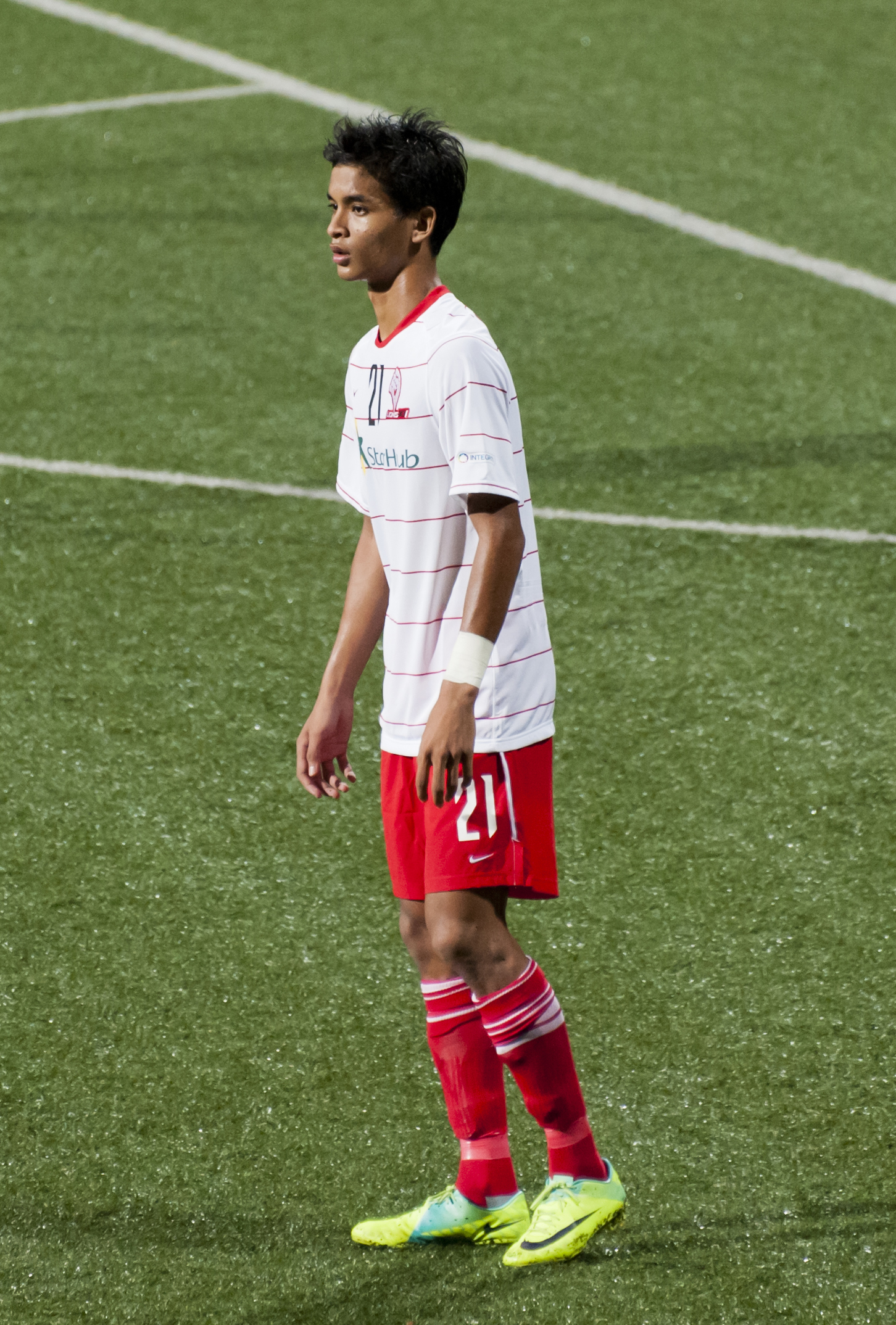 safuwan baharudin lionsxii malaysia super league home game 2012